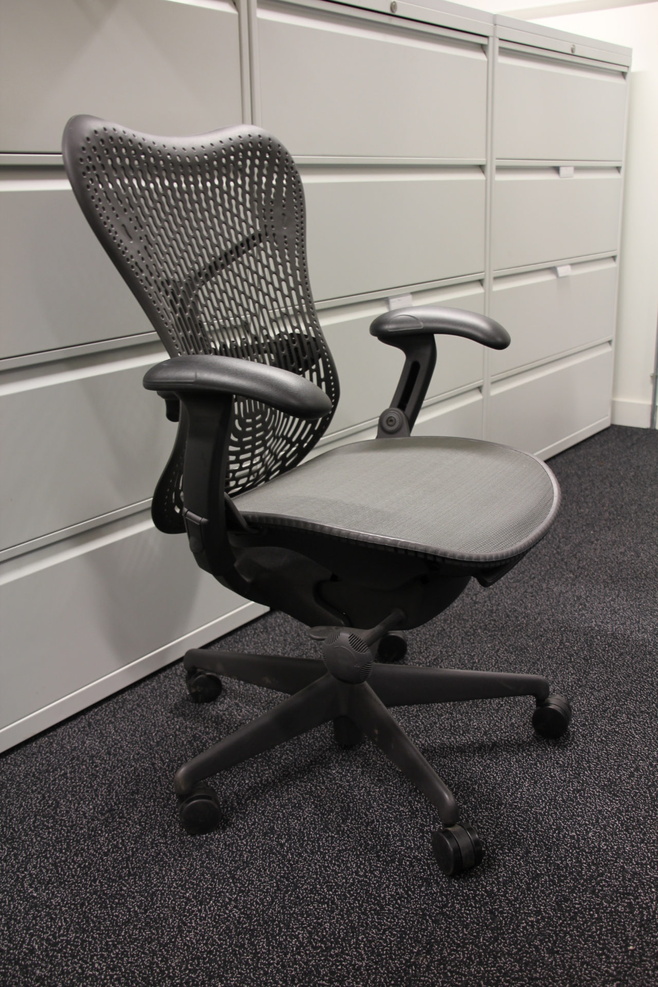 Picture of the office chair